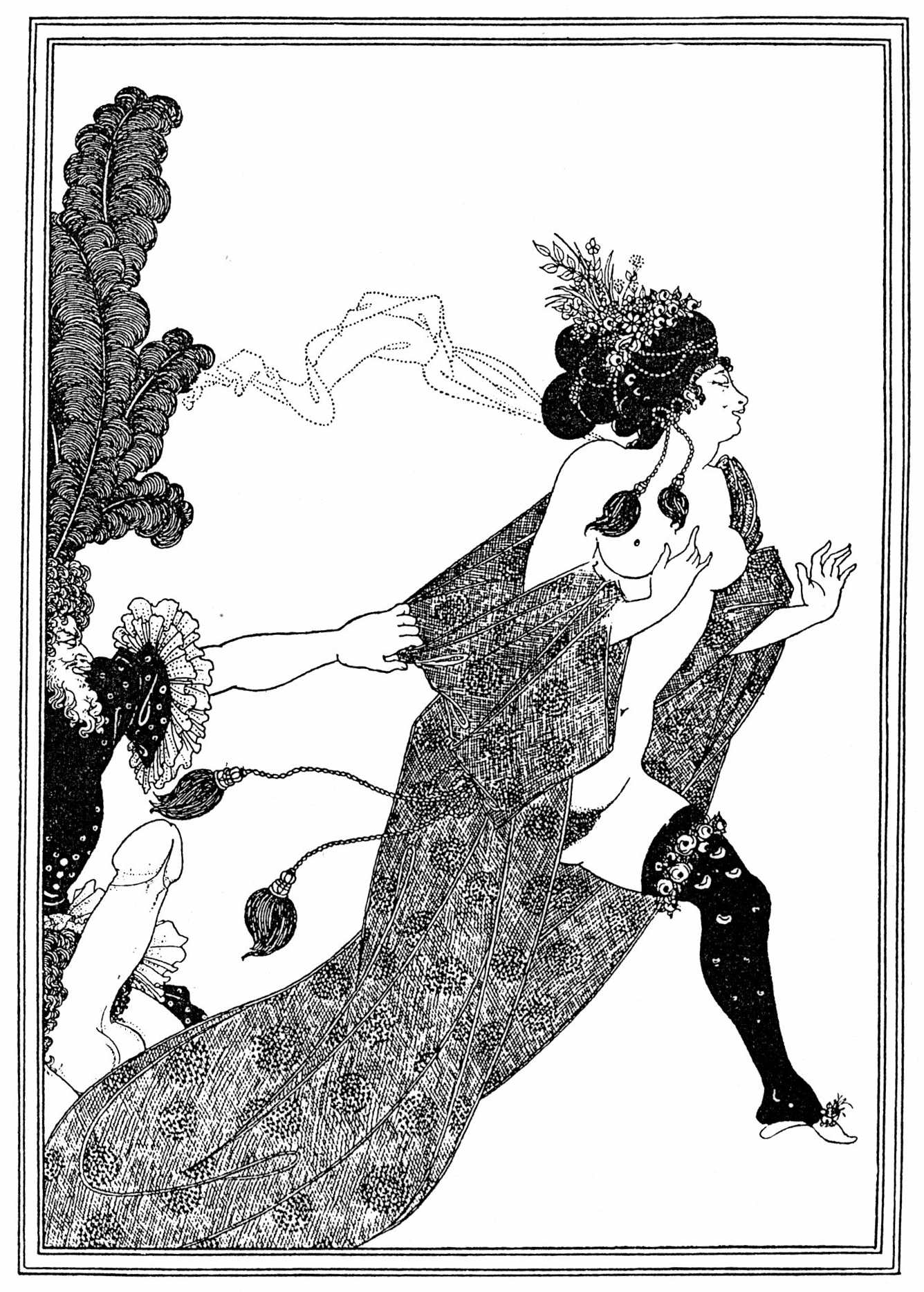 Cinesias Entreating Myrrhina to Coition. From Aubrey Beardsley's illustrations (1896) on Aristophane's Lysistrata.